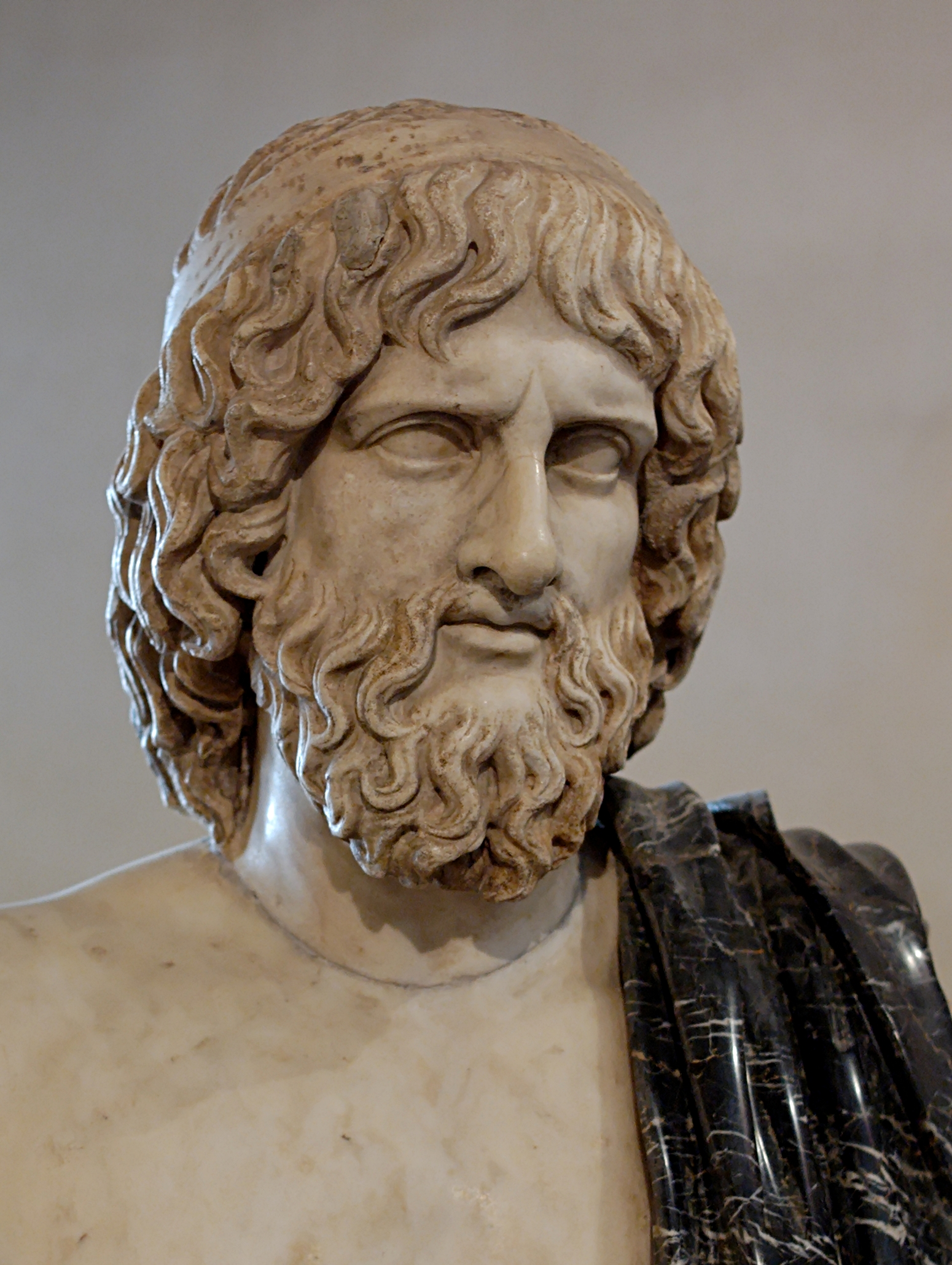 Bust of Hades. Marble, Roman copy after a Greek original from the 5th century BCE; the black mantle is a modern addition.